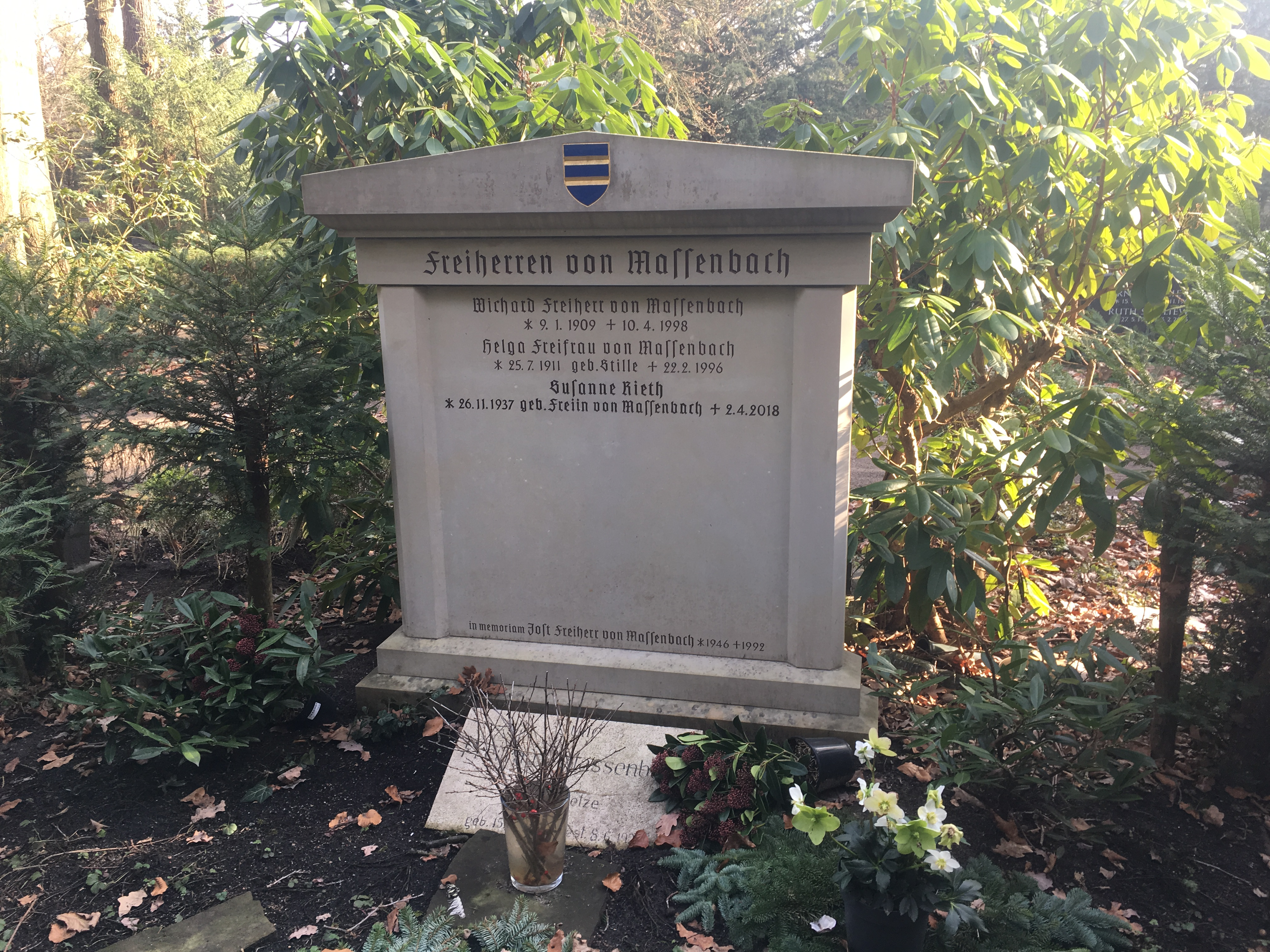 Burgtorfriedhof in Lübeck